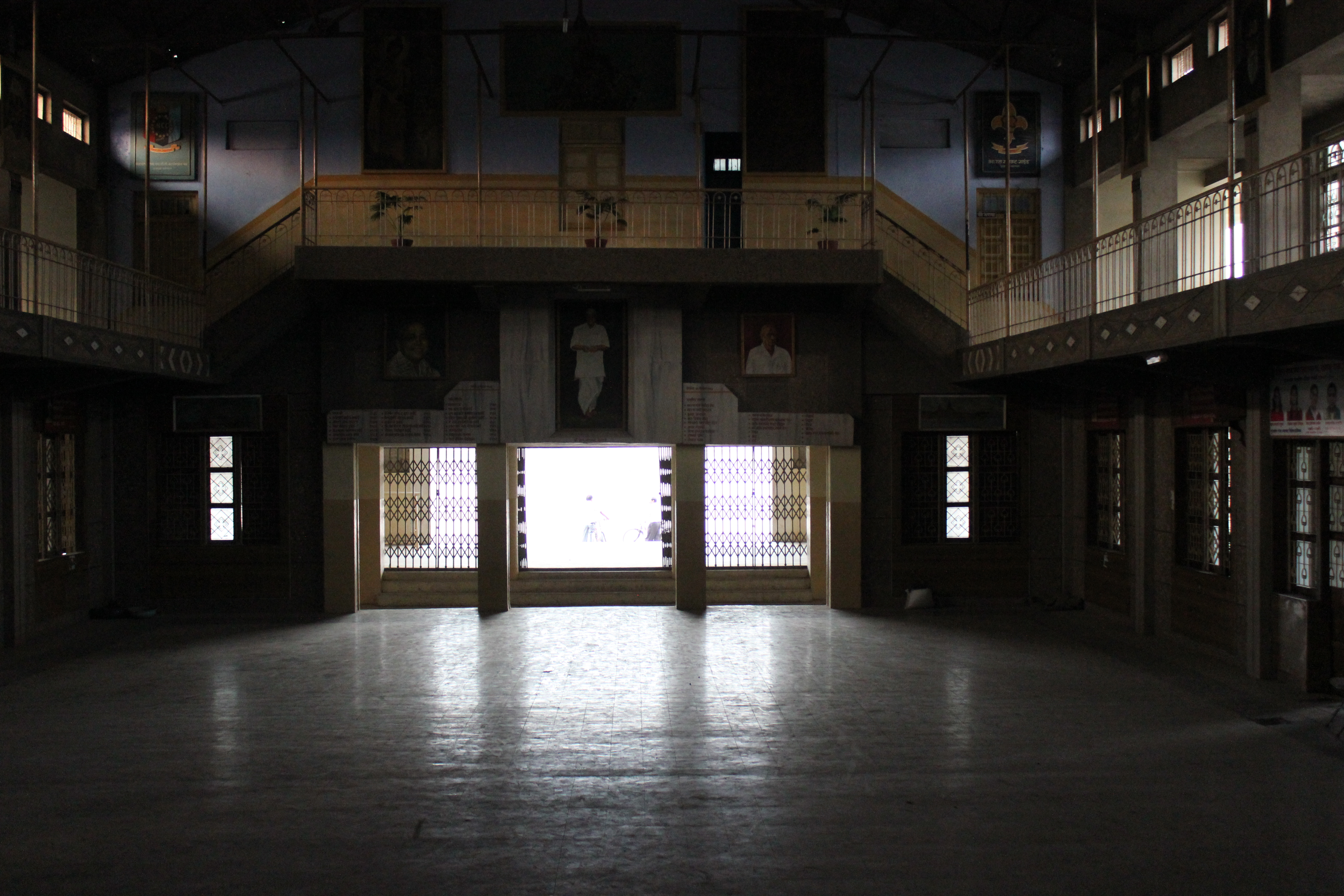 Ravindra Kala Mandir Uruli Kanchan. School hall of Mahatma Gandhi Vidyalaya